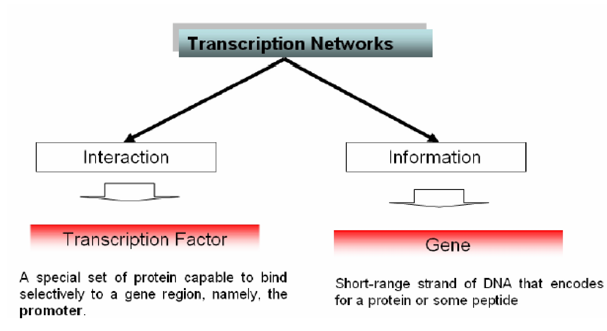 The two important components of transcription networks